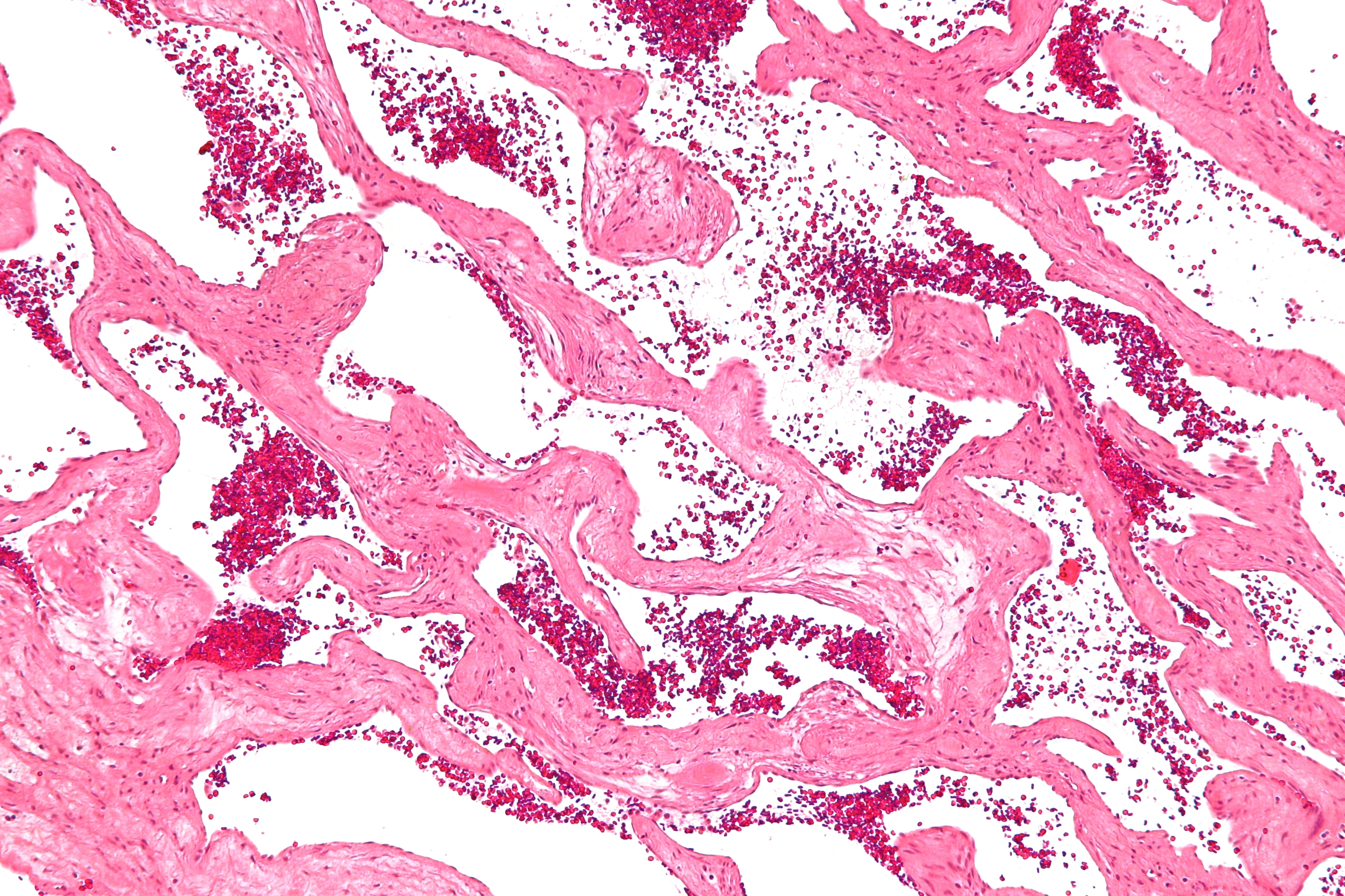 Intermediate magnification micrograph of a cavernous hemangioma of the liver, also hepatic cavernous hemangioma, liver hemangioma, cavernous liver hemangioma. H&E stain. No liver tissue is seen. Related images Intermed. mag. High mag.